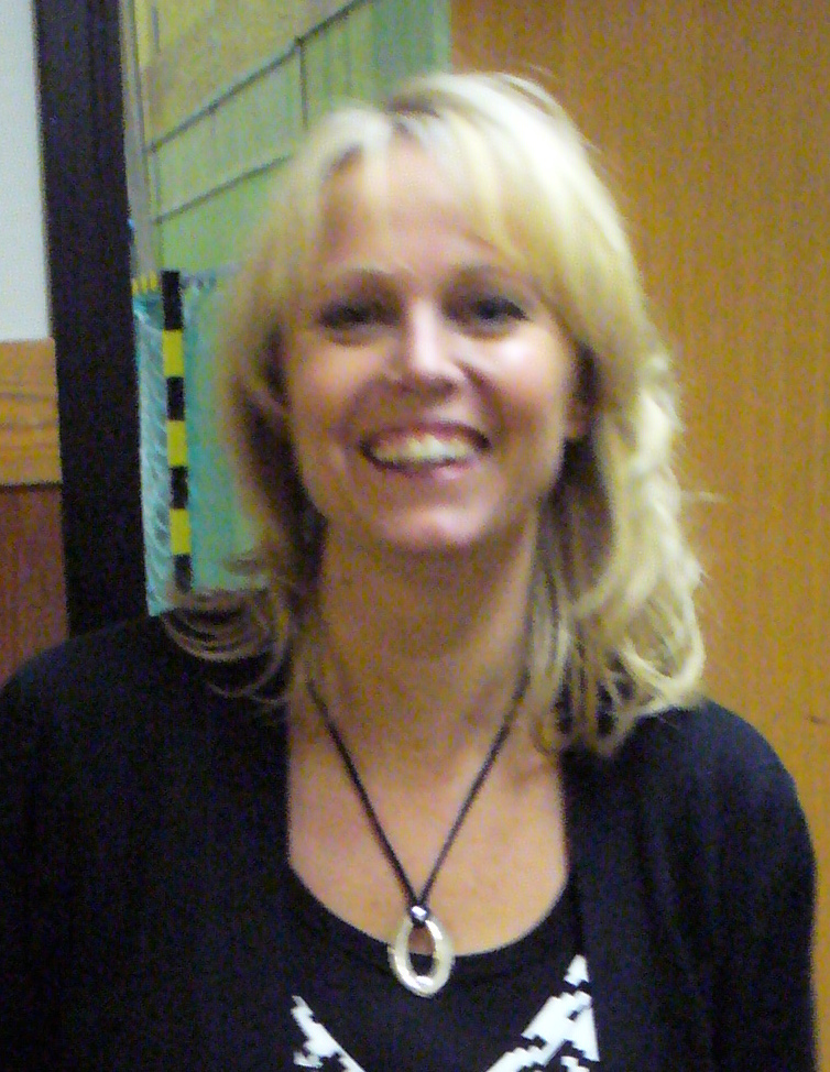 Swedish actress and comedian Annika Andersson at a youth soccer event in Falkenberg